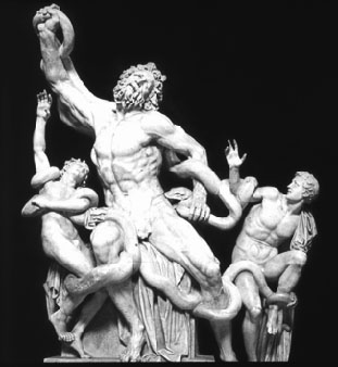 c1850 photograph of Laocoon sculpture showing pre 20th Century restoration